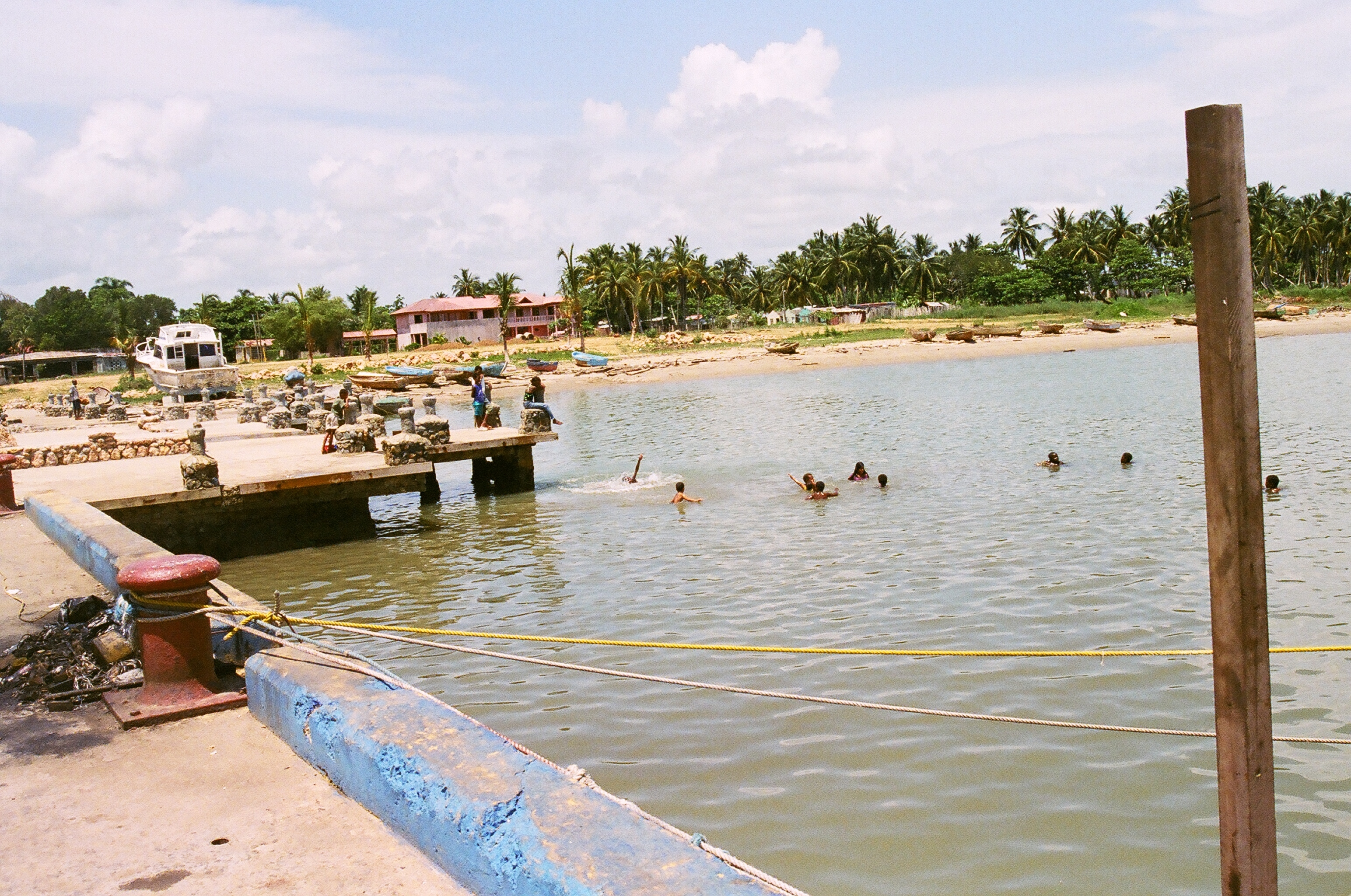 This is a gorgeous small and friendly town where the people love the ocean.